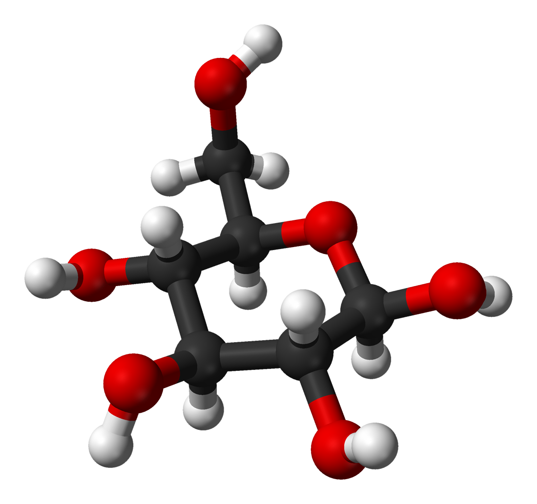 Ball-and-stick model of the β-D-glucose molecule, C6H12O6, as found in the crystal structure. X-ray diffraction data from Acta Cryst. (1995) B51, 209-220. Model constructed in CrystalMaker 8.1. Image generated in Accelrys DS Visualizer.